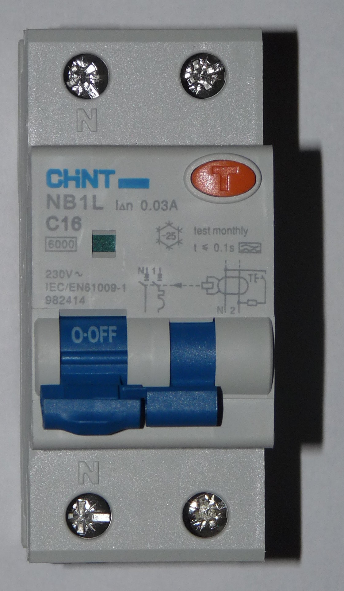 Combined circuit breaker and RCD. In science language it is named "differential residual current circuit interrupter". Used in small fuse boxes, where are no place for installing circuit breaker and RCD separately.